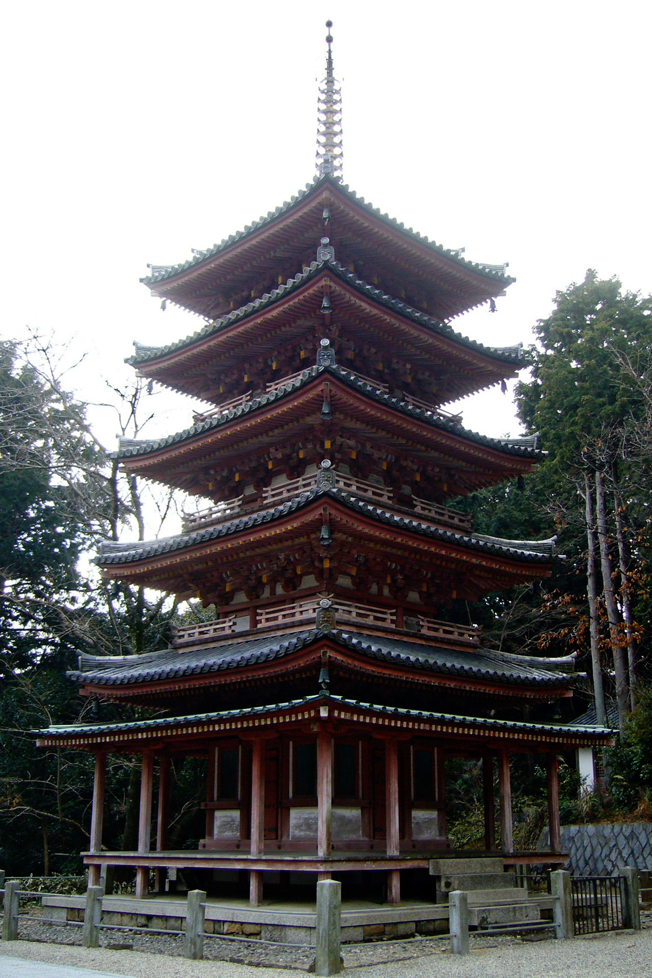 Kaijūsen-ji's Five-storied Pagoda is a Japan's National Treasure in Kamo, Soraku-gun, Kyoto prefecture, Japan It was built in 1214.